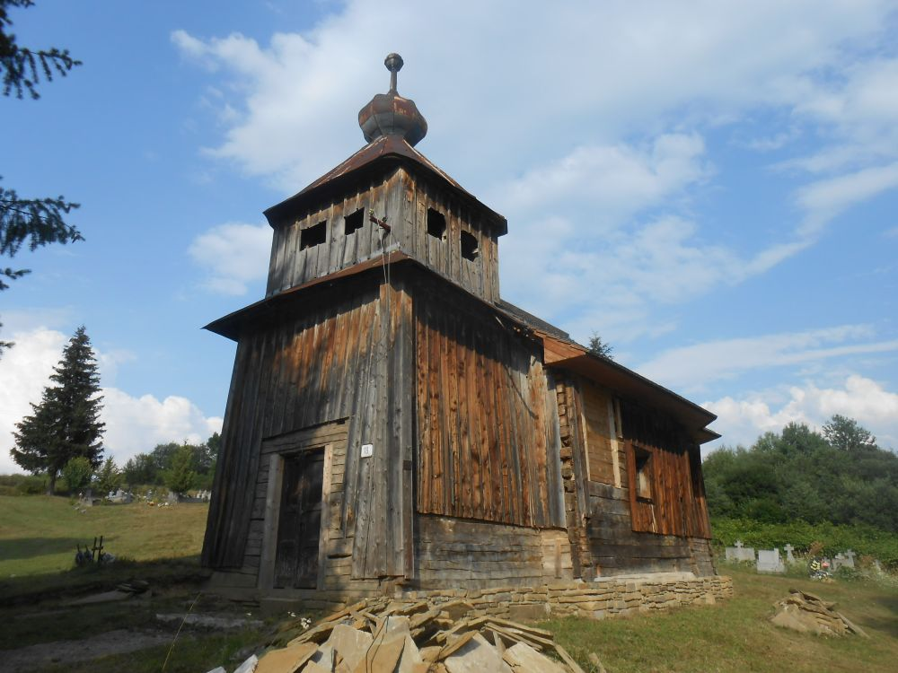 Wooden church of the Ascencion of Christ in Šmigovec built in 1755